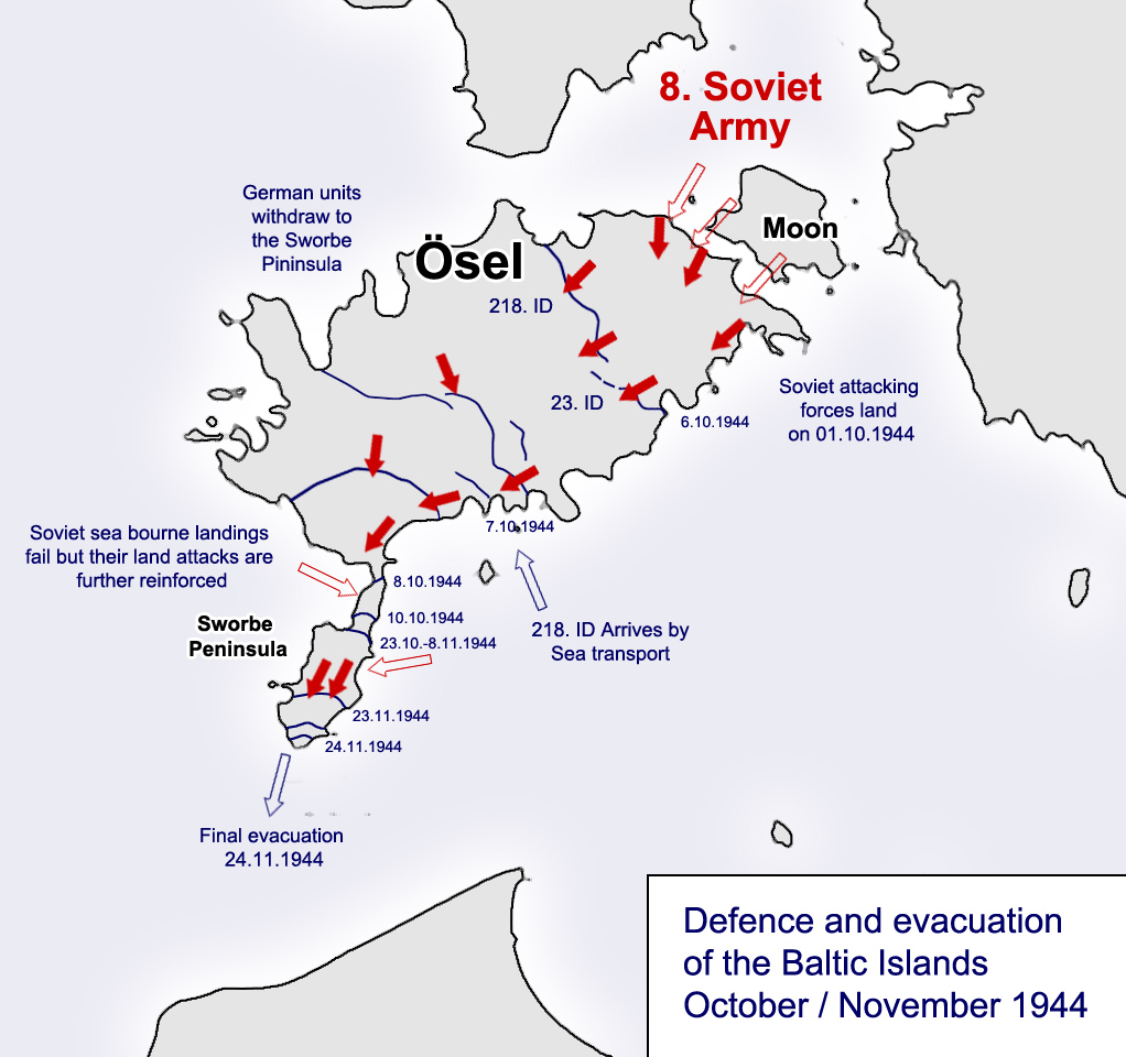 Soviet assault on Baltic Island of Saaremaa (Ösel) in October / November 1944, depicting defense of 23rd and 218th Infantry divisions